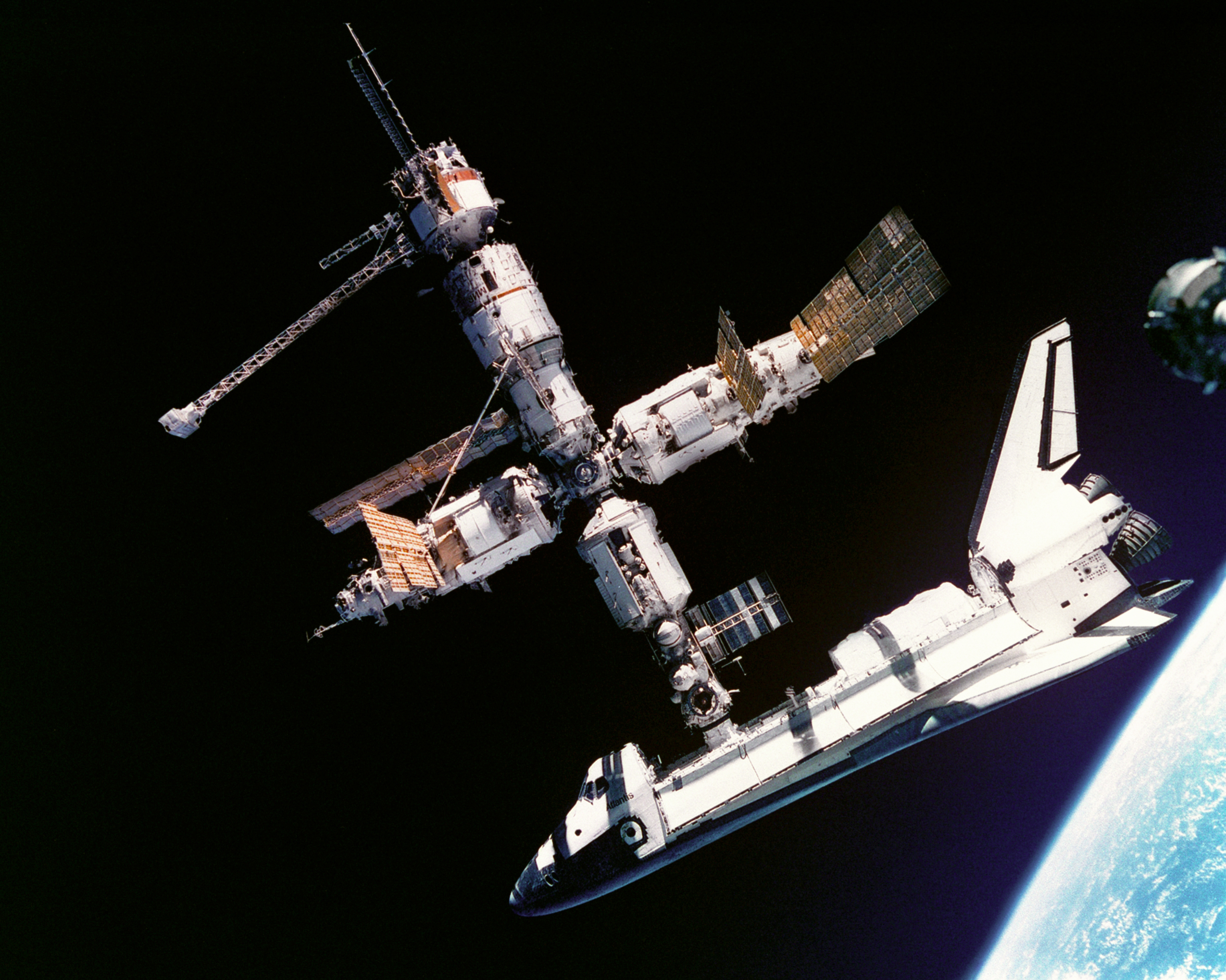 This view of the Space Shuttle Atlantis still connected to Russia's Mir Space Station was photographed by the Mir-19 crew on July 4, 1995. Cosmonauts Anatoliy Y. Solovyev and Nikolai M. Budarin, Mir-19 Commander and Flight Engineer, respectively, temporarily undocked the Soyuz spacecraft from the cluster of Mir elements to perform a brief fly-around. They took pictures while the STS-71 crew, with Mir-18's three crew members aboard, undocked Atlantis for the completion of this leg of the joint activities. Solovyev and Budarin had been taxied to the Mir Space Station by the STS-71 ascent trip of Atlantis.